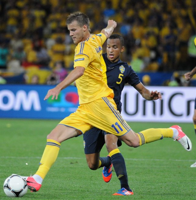 UEFA Euro 2012 match between Ukraine and Sweden that took place in Kiev. Final result was 2:1 (2xShevchenko - Ibrahimović)